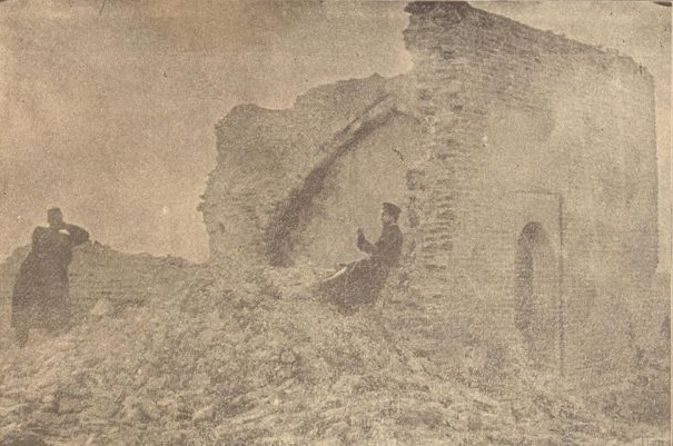 Ruins of Old mausoleum of Nizami Ganjavi (built in the 13th century). Old Ganja